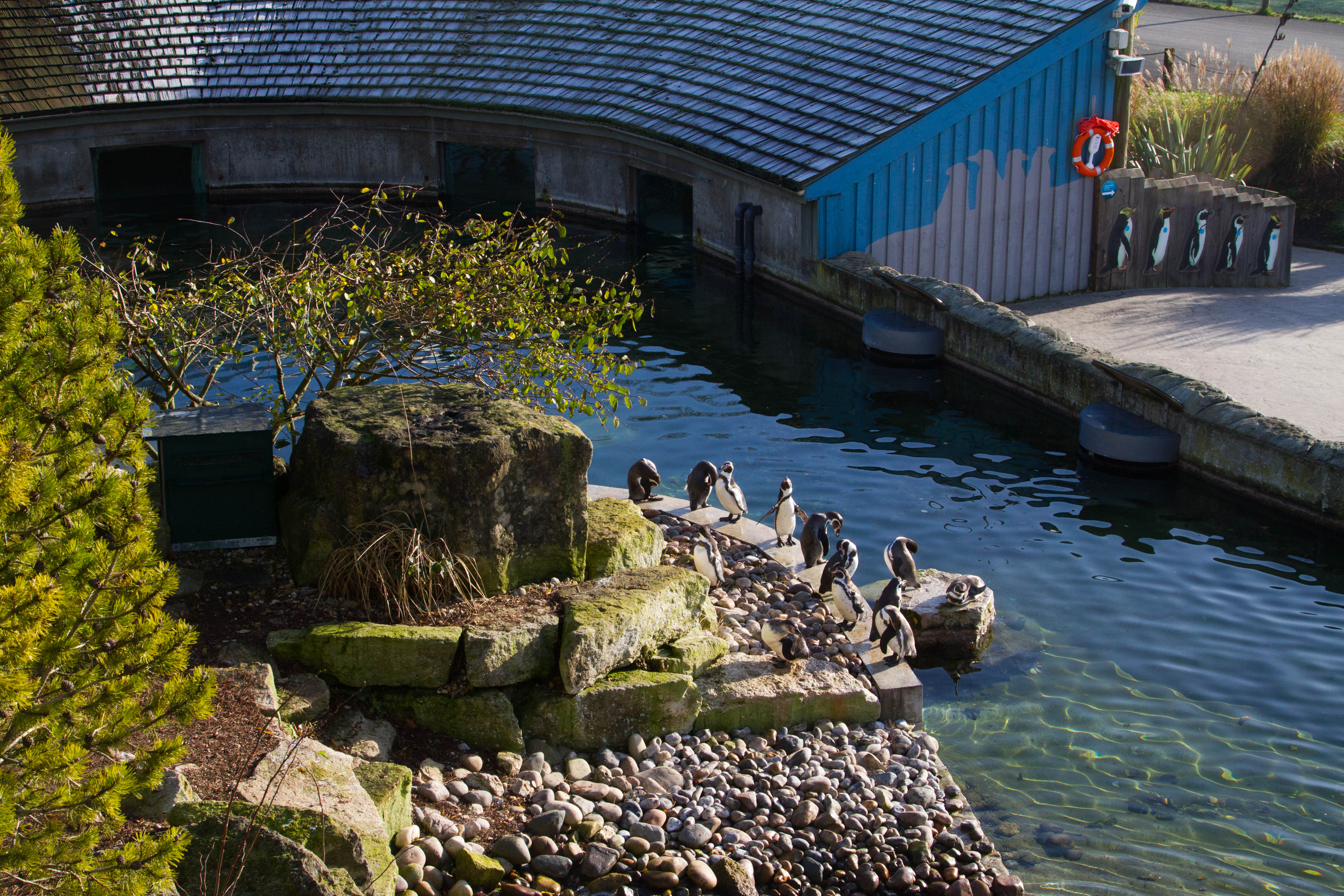 "Penguin Cove" exhibit at Marwell Zoo, Hampshire, England